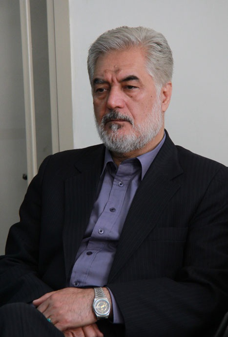 10th students Crescent camp of University of Nishapur